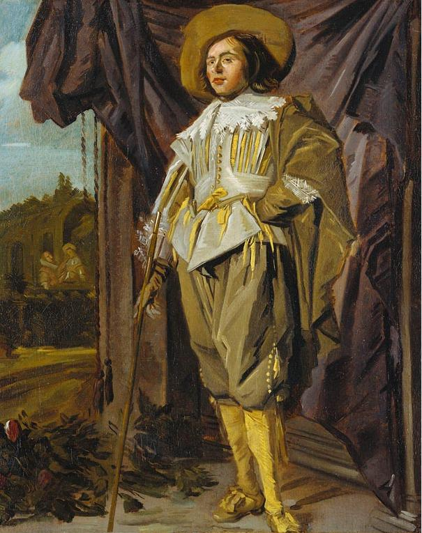 Portrait of a young man, painted in the manner of the portrait of Willem van Heythuizen by Frans Hals